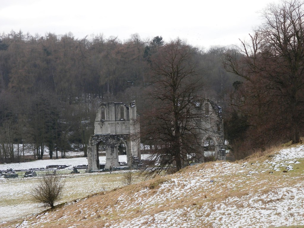 Roche Abbey from the road